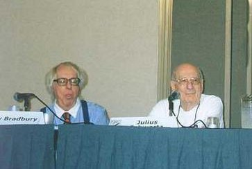 Ray Bradbury and Julius Schwartz at Comic-Com International in 2002